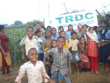 child education and child rights